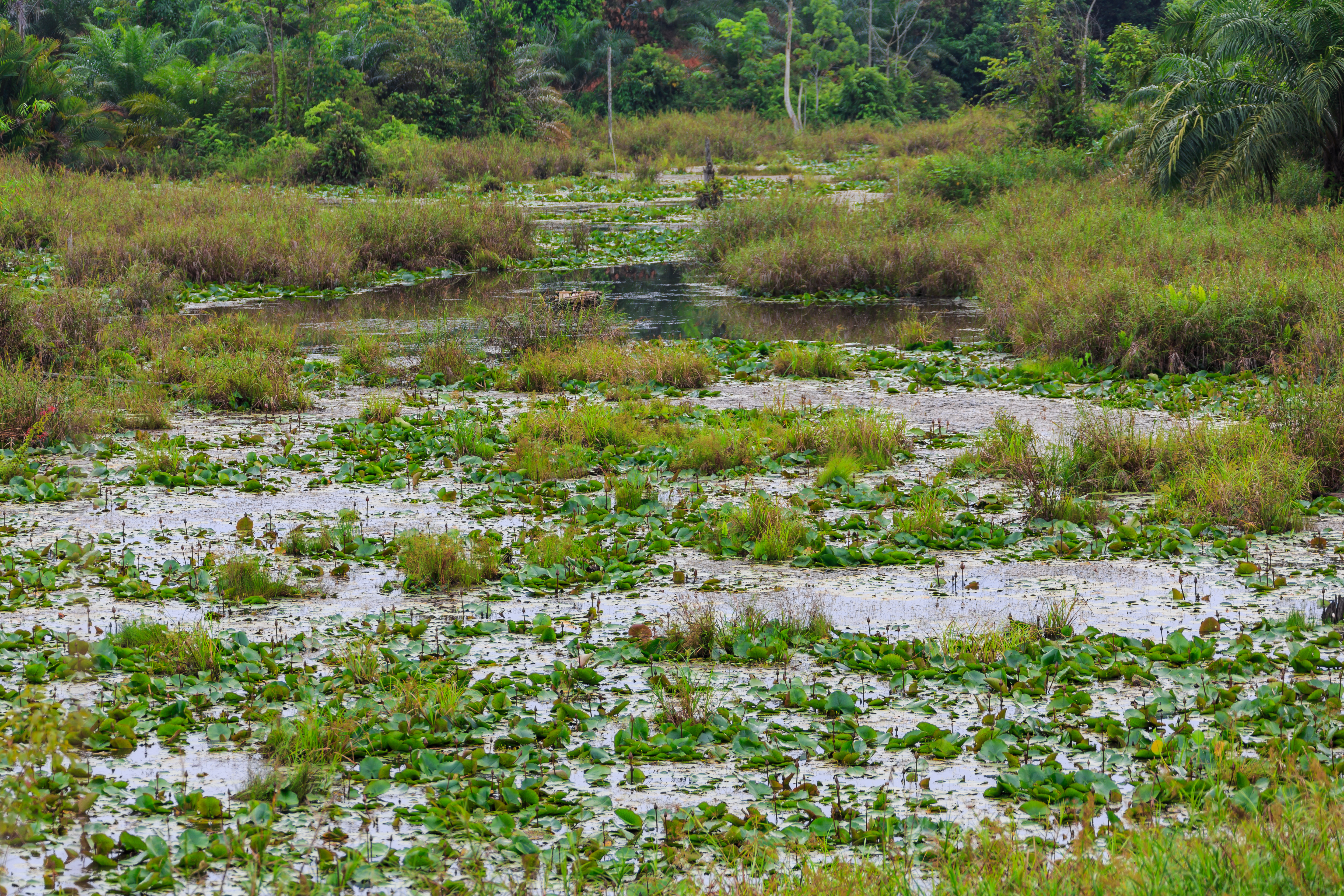 Keningau, Sabah: A mosquito striken swamp next the Keningau-Sook Road